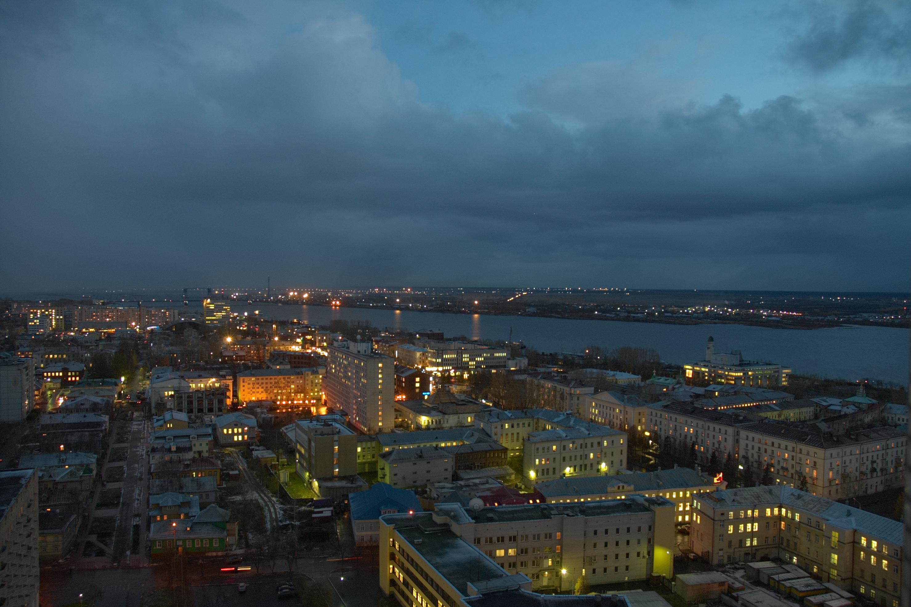 View of Arkhangelsk at night